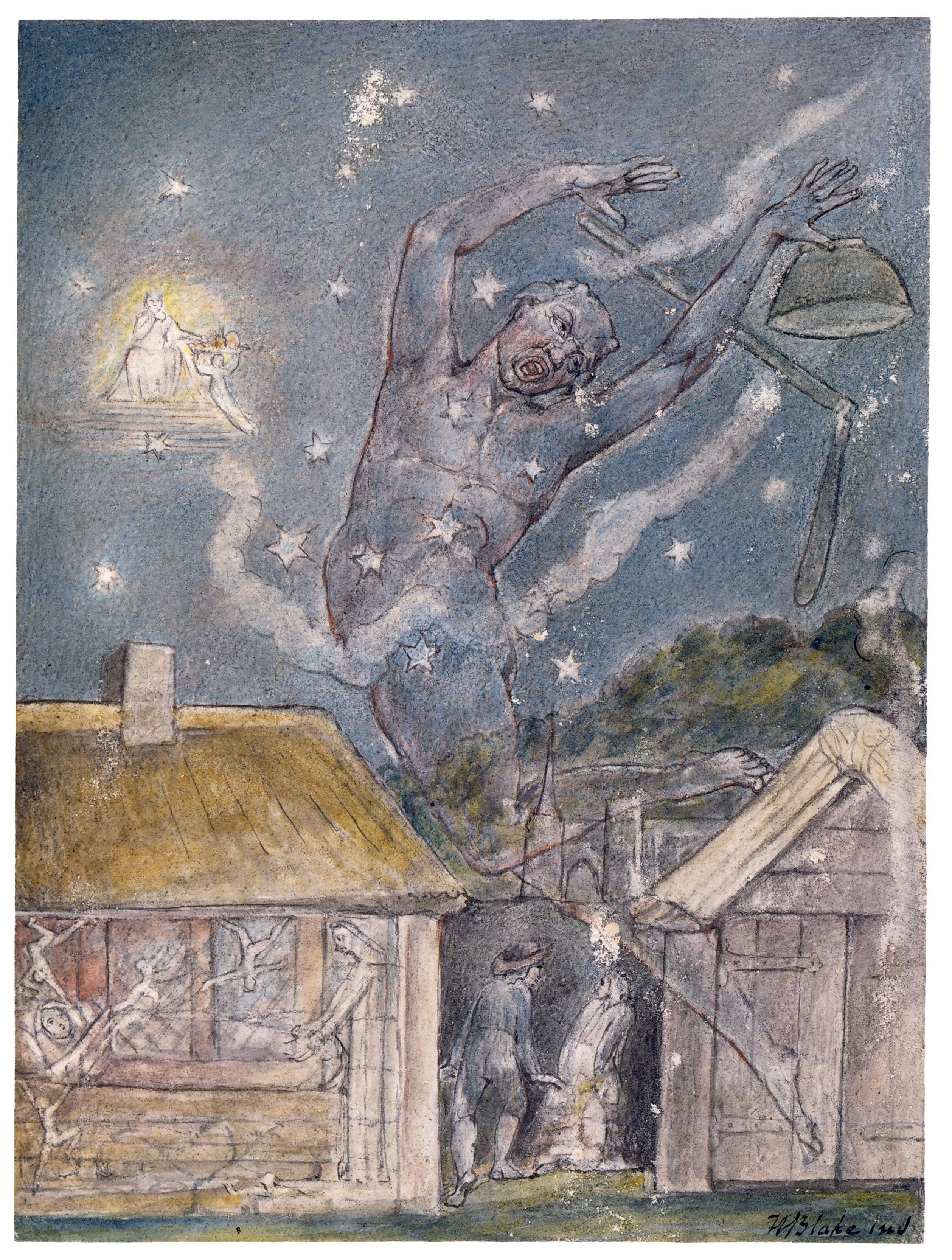 The Goblin, Watercolor Illustration to Milton's L'Allegro and Il Penseroso by William Blake